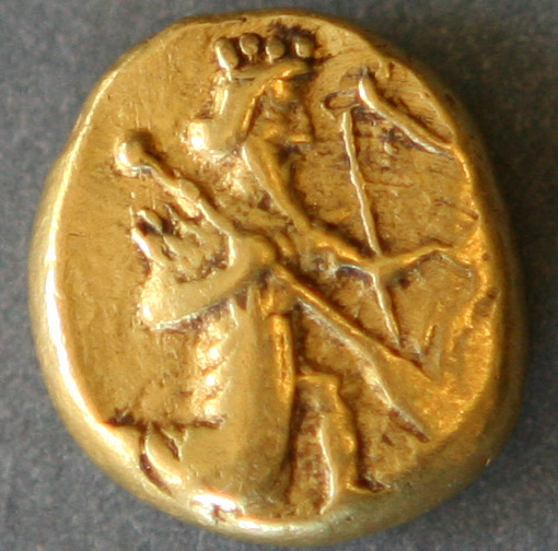 Persian Achaemenid Coin: Gold Daric, circa 490BC